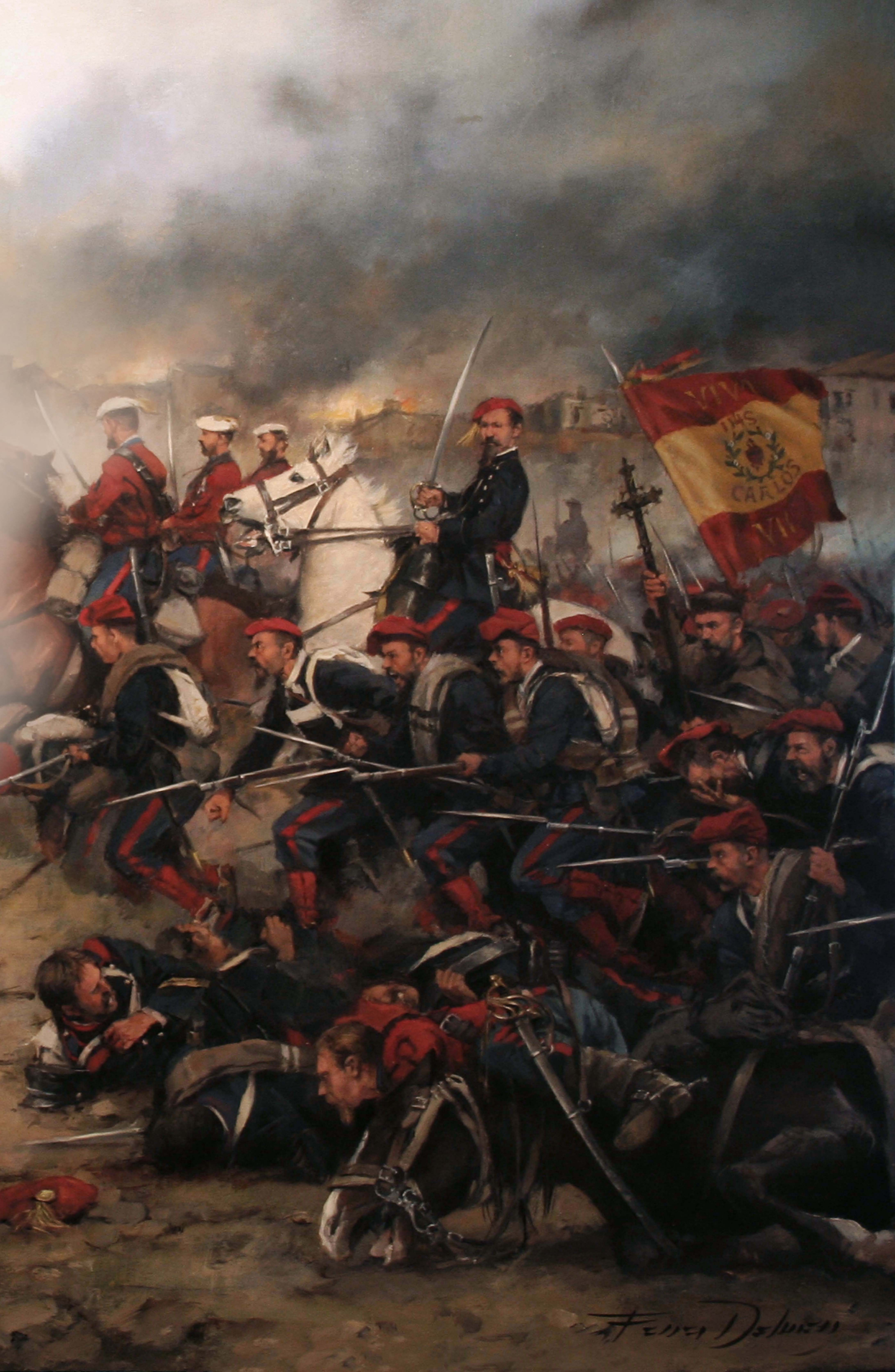 General Tristany carlistas de Gerona